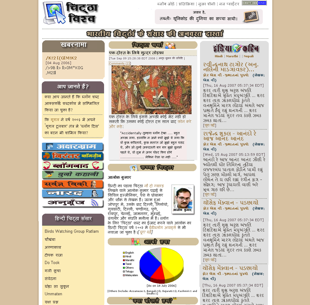 Chittha Vishwa was the first aggregator for Hindi blogs that Debashish Chakrabarty had created as a hobby project at the free Java hosting services of . This service was later stopped and the site went dead. The image is a screen-grab of this erstwhile website.